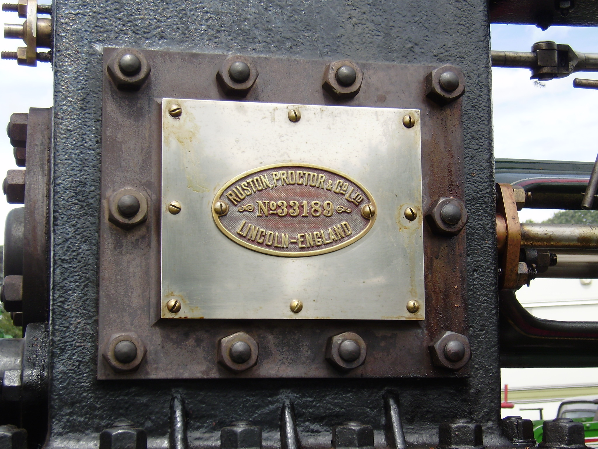 Ruston, Proctor & Co Brass plate for engine 33189 (Built 1907 -- details at Steam Scenes)